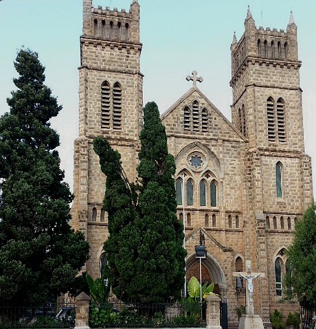 The Roman Catholic Archdiocese of Harare (Zimbabwe)